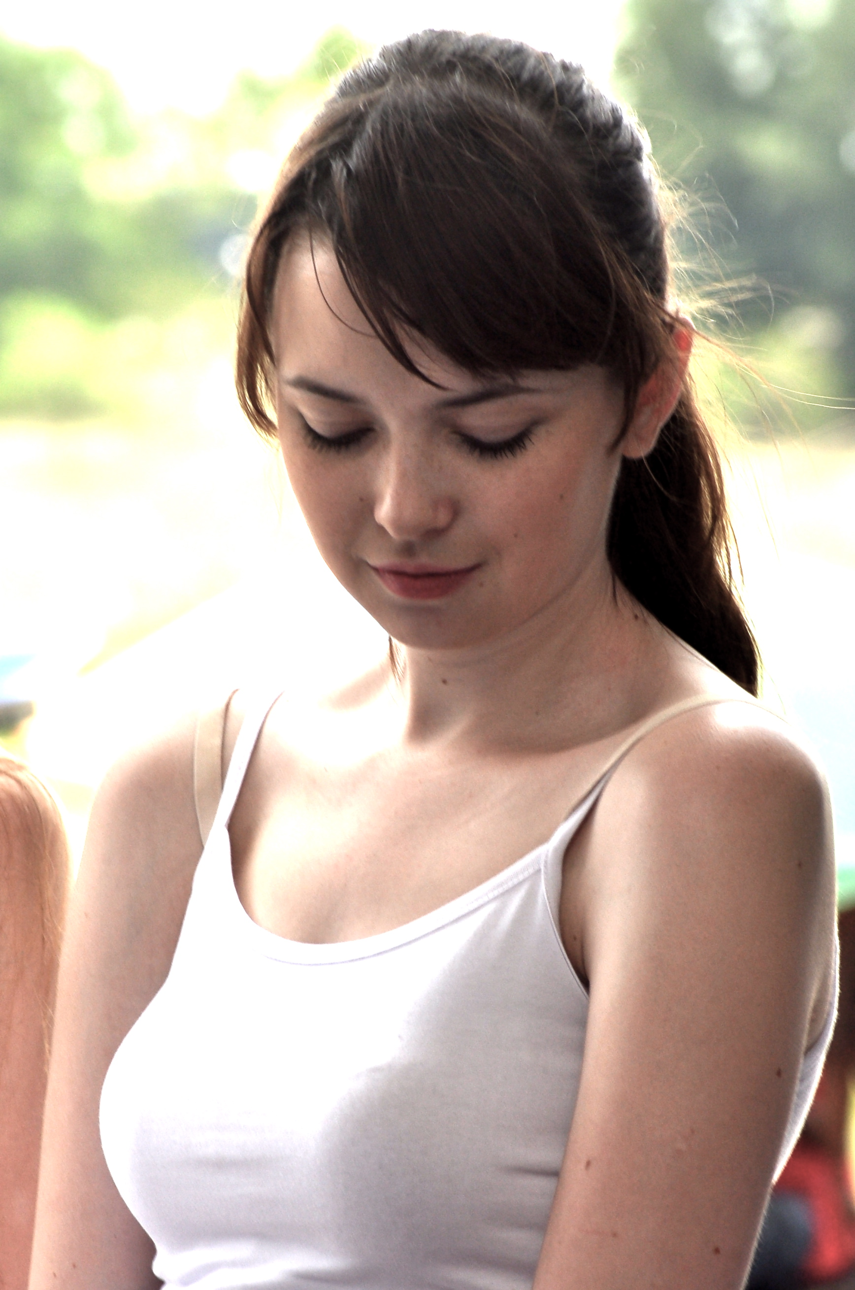 A young woman wearing a white top and looking down.